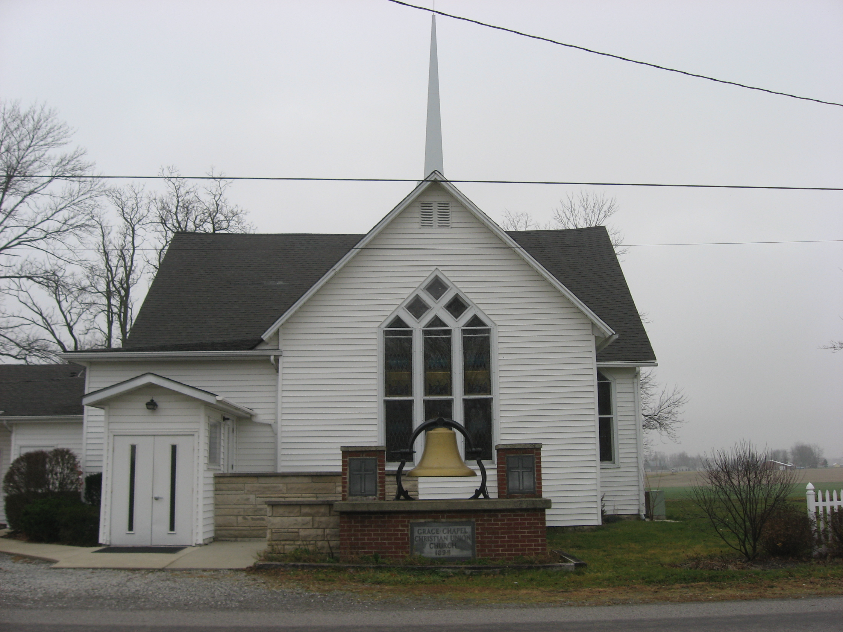 Front of Grace Chapel Church of Christ in Christian Union, located at 9491 County Road 23 on the Logan County side of Santa Fe, Ohio, United States.